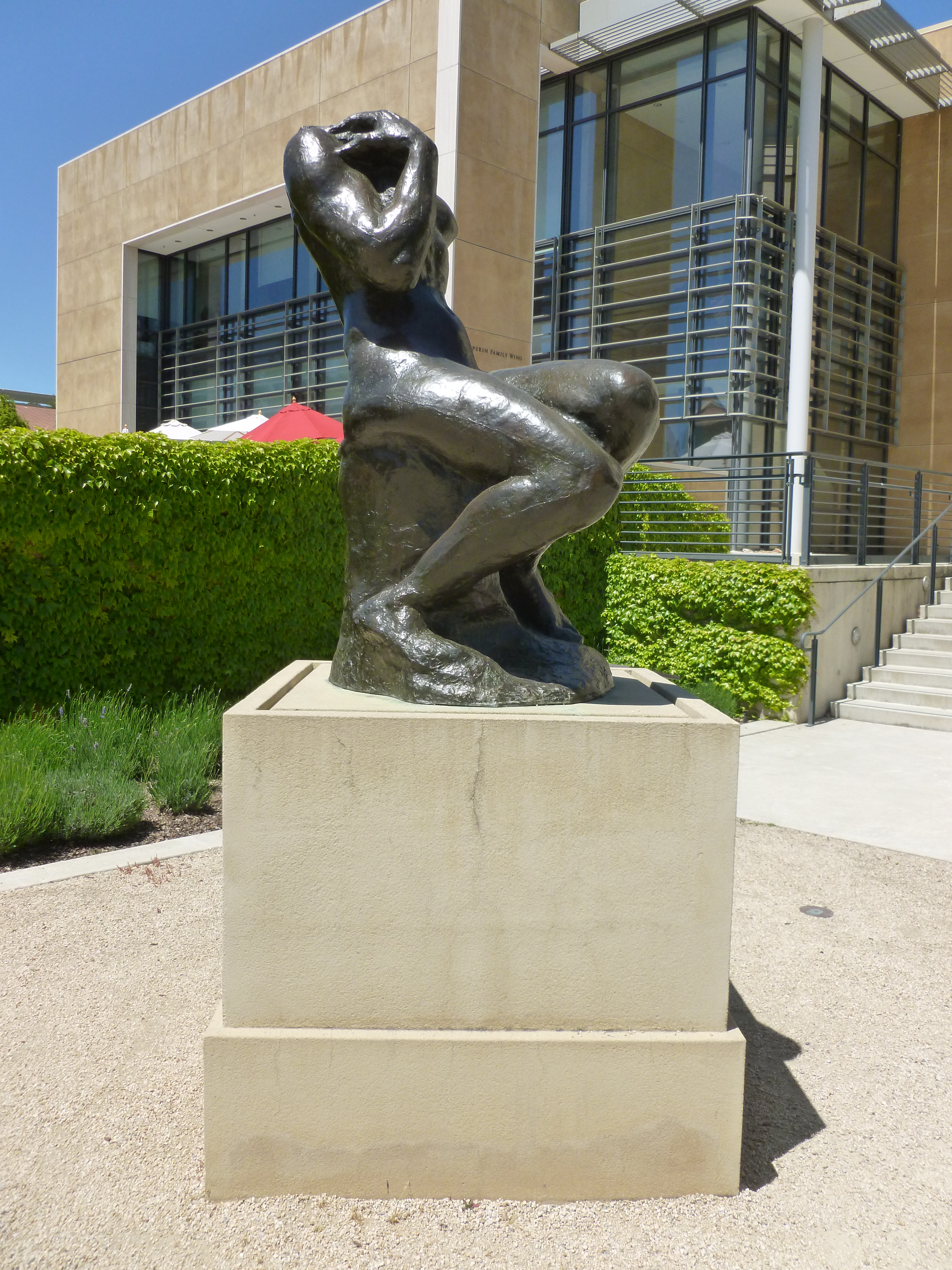 Seated Woman, a sculpture of the goddess Cybele by Auguste Rodin. Located at the B. Gerald Cantor Rodin Sculpture Garden at Stanford University. Right side shown.